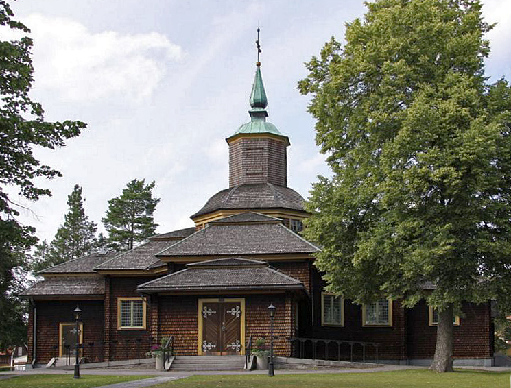 Ramundeboda church i Laxå,Sweden